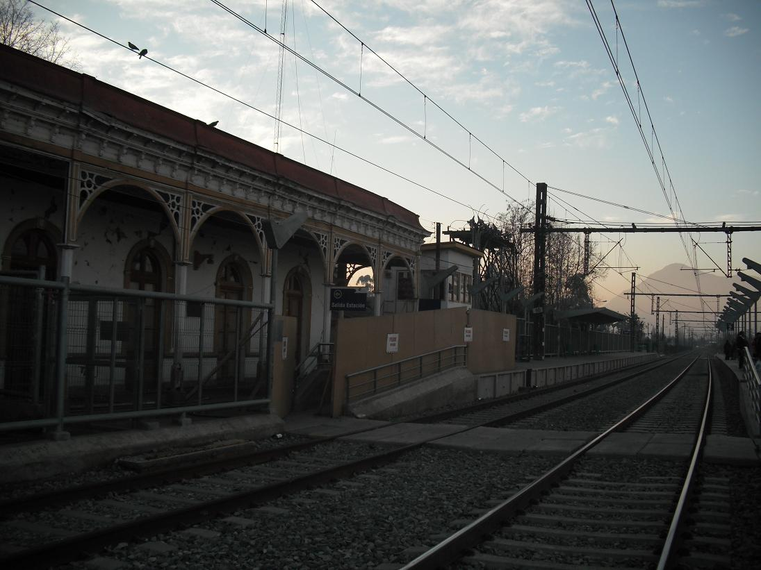 Railroad station of Sn Francisco de Mostazal